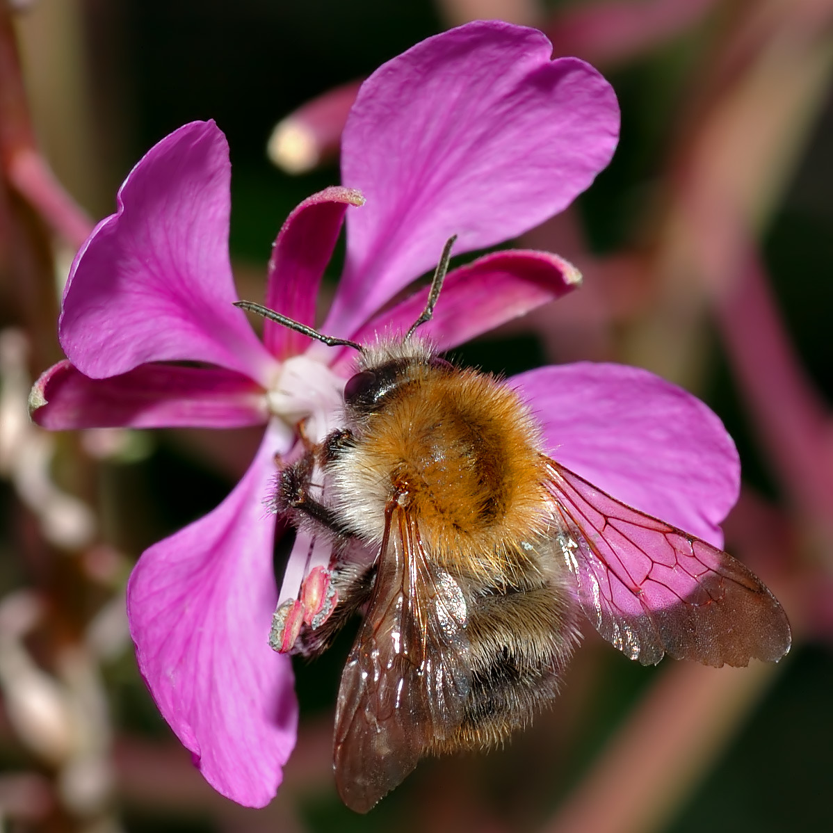 This image shows a Bombus pascuorum bumblebee female.